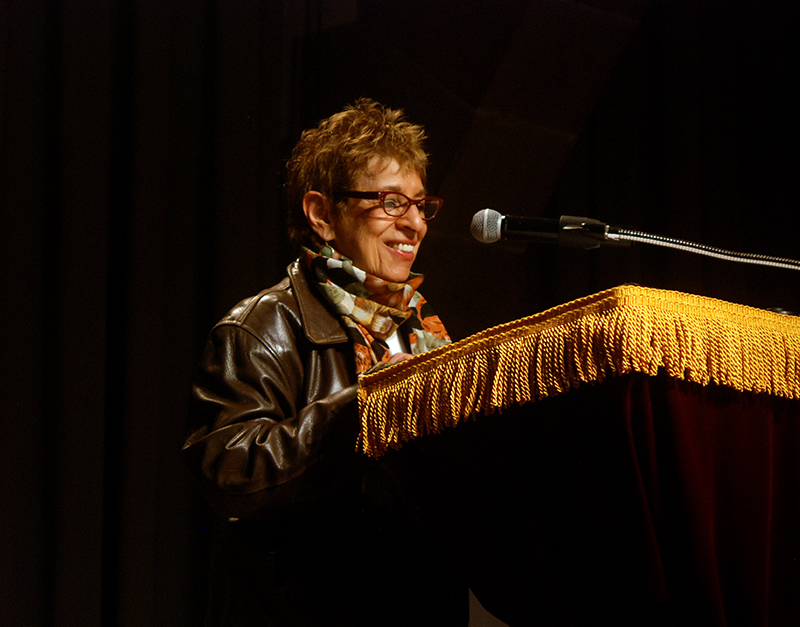 Hettie Jones at the "House Divided" reading in Cooper Union's Great Hall